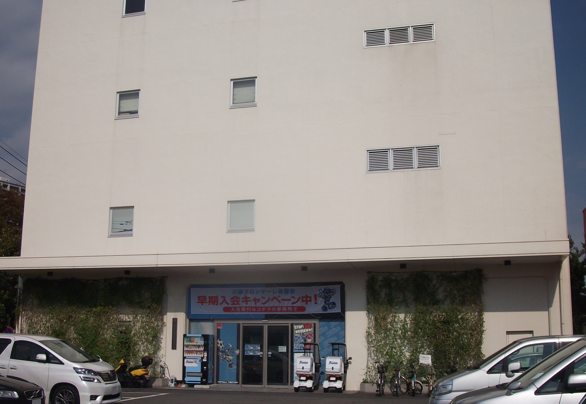 The Headquarter of Kawasaki Frontale Co., Ltd.